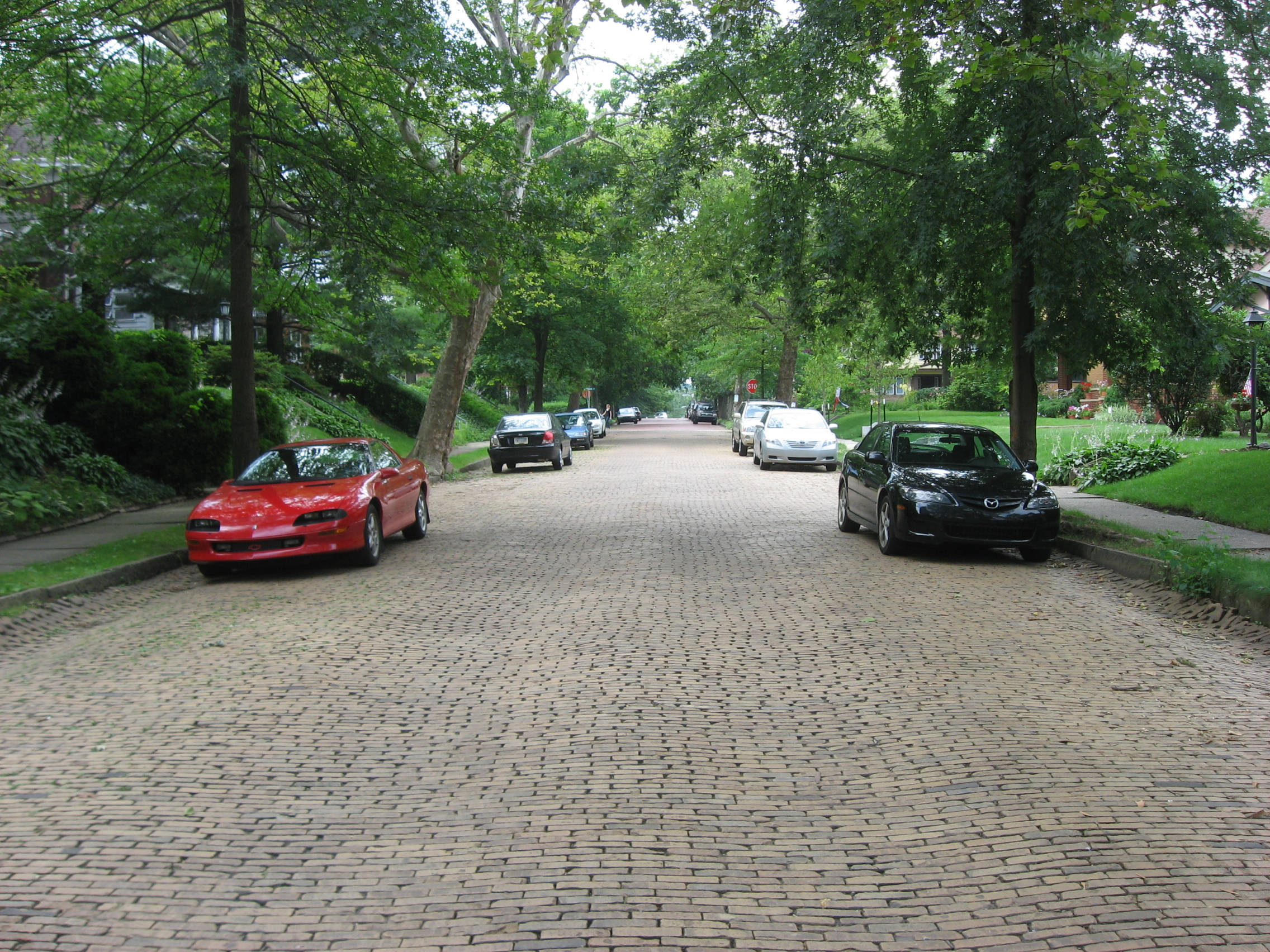 Northward along a neighborhood brick street in the borough of Swissvale, an eastside suburb of Pittsburgh, Pennsylvania, United States. Taken northward along LaClair Avenue between Hutchinson Avenue and Sanders Street, this is a typical street for the western edge of Swissvale, near the Pittsburgh line.